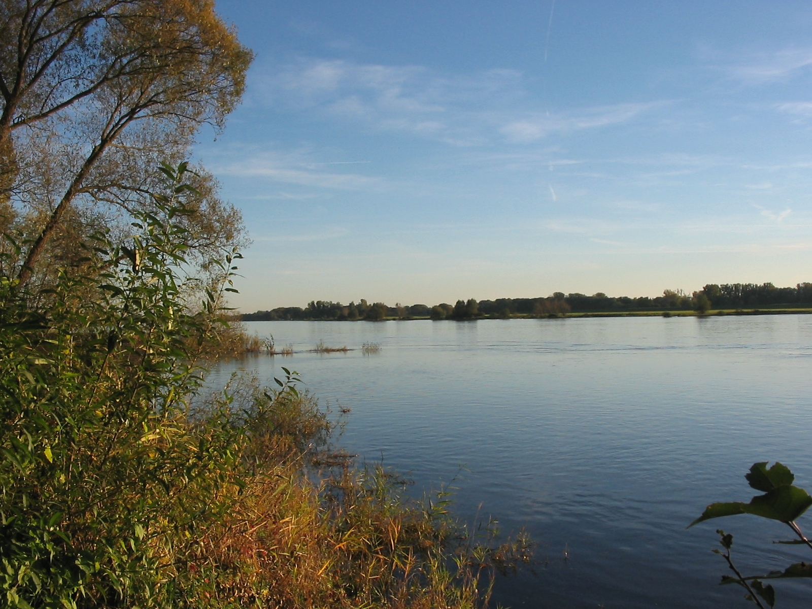 Elbe river near Rüterberg (Dömitz), district Ludwigslust-Parchim, Mecklenburg-Vorpommern, Germany